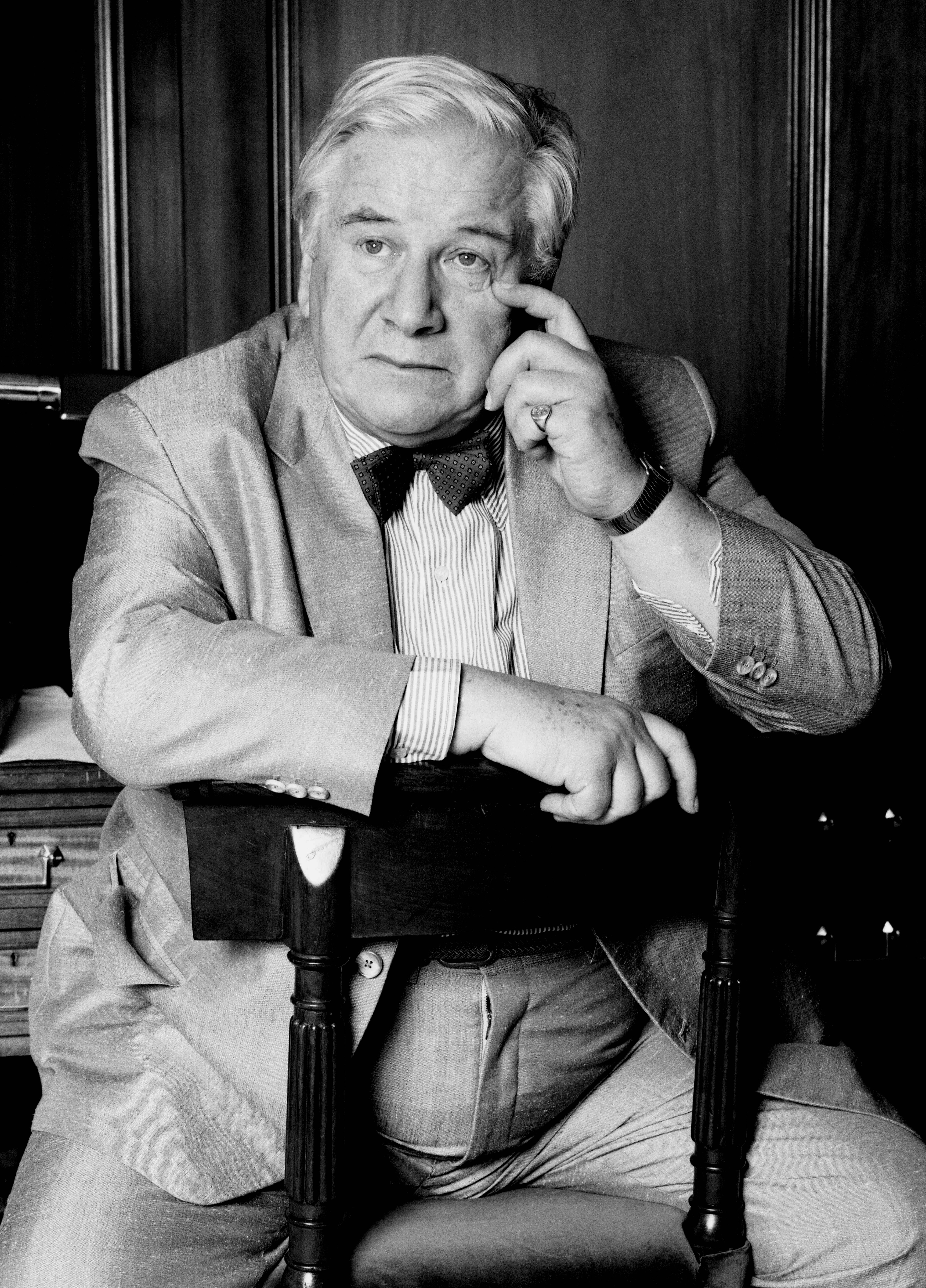 Sir Peter Ustinov in London. The photo was taken in his suite at the Berkeley hotel, over tea and a feast of jam scones and cream buns.